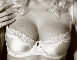 A white brassiere.